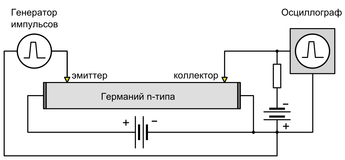 The Haynes-Shockley experiment, 1948